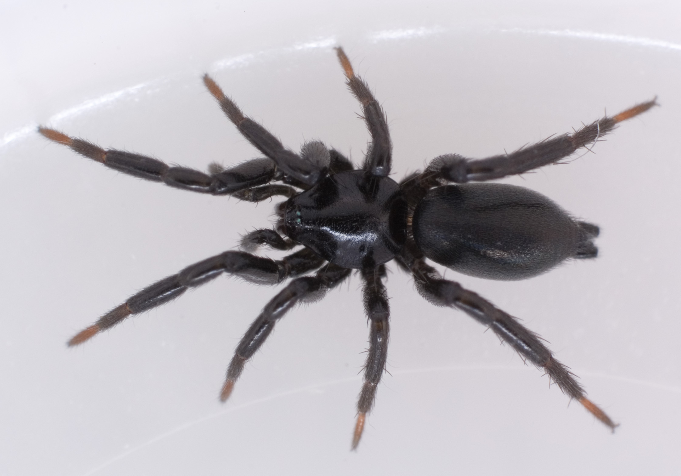 Zelotes sp.